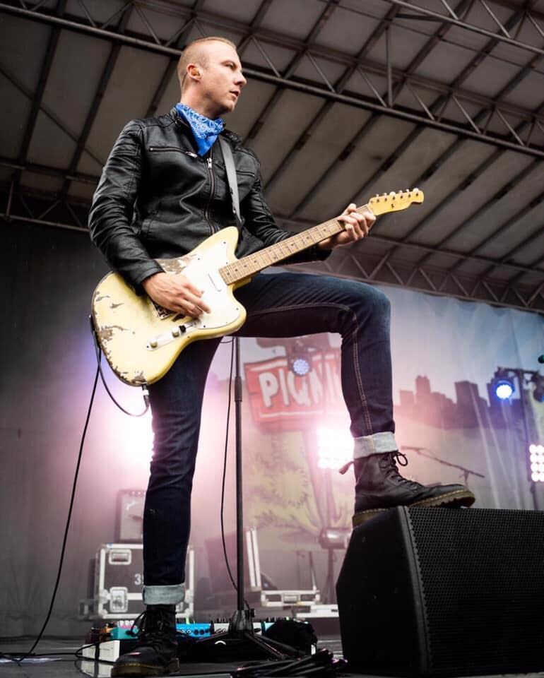 Will Knaak of Blue October on stage at Hollywood Casino Amphitheatre in Tinley Park, Illinois. June 15, 2019. Photographer: Julia Simone Paul